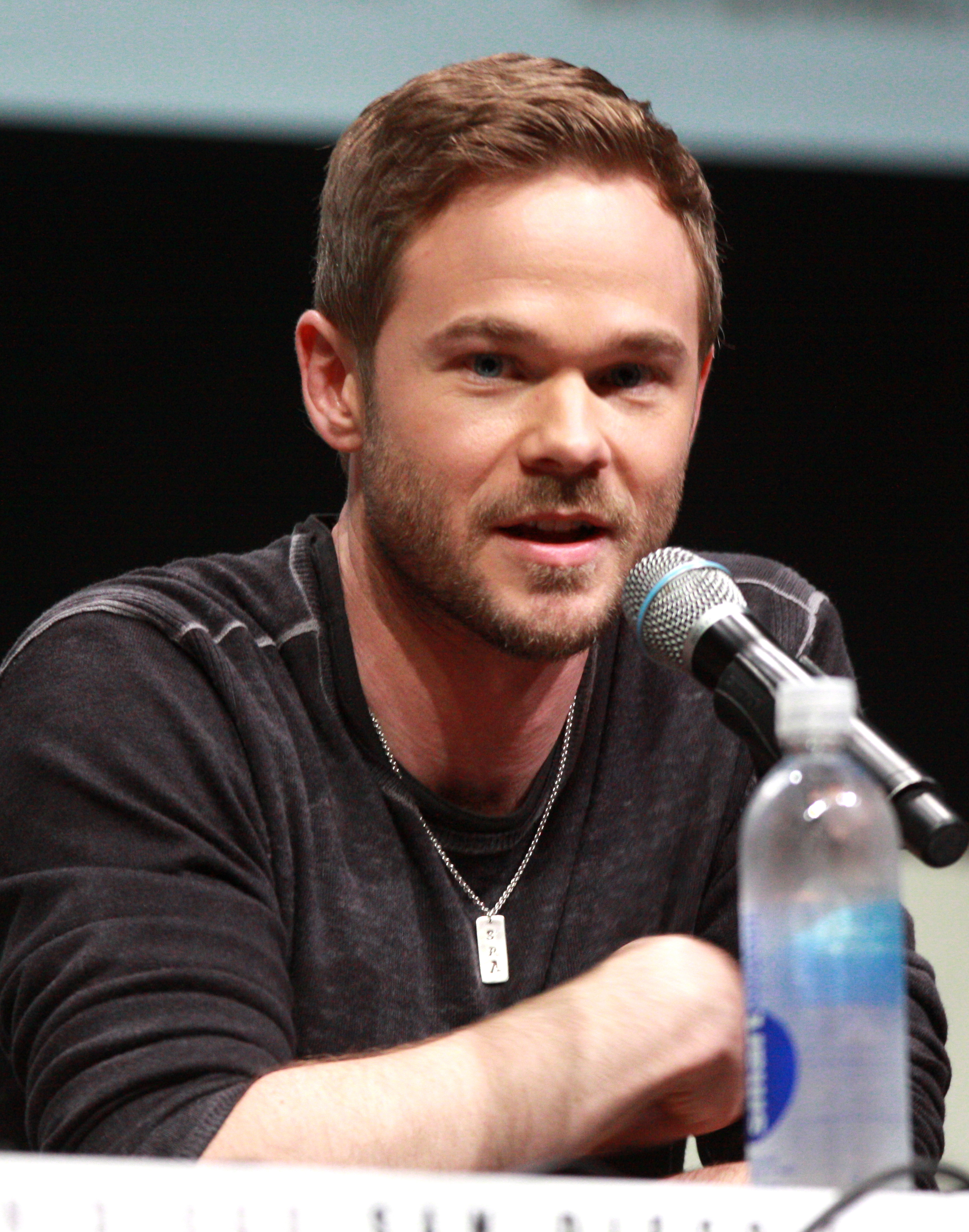 Shawn Ashmore at the 2013 San Diego Comic Con International in San Diego, California.